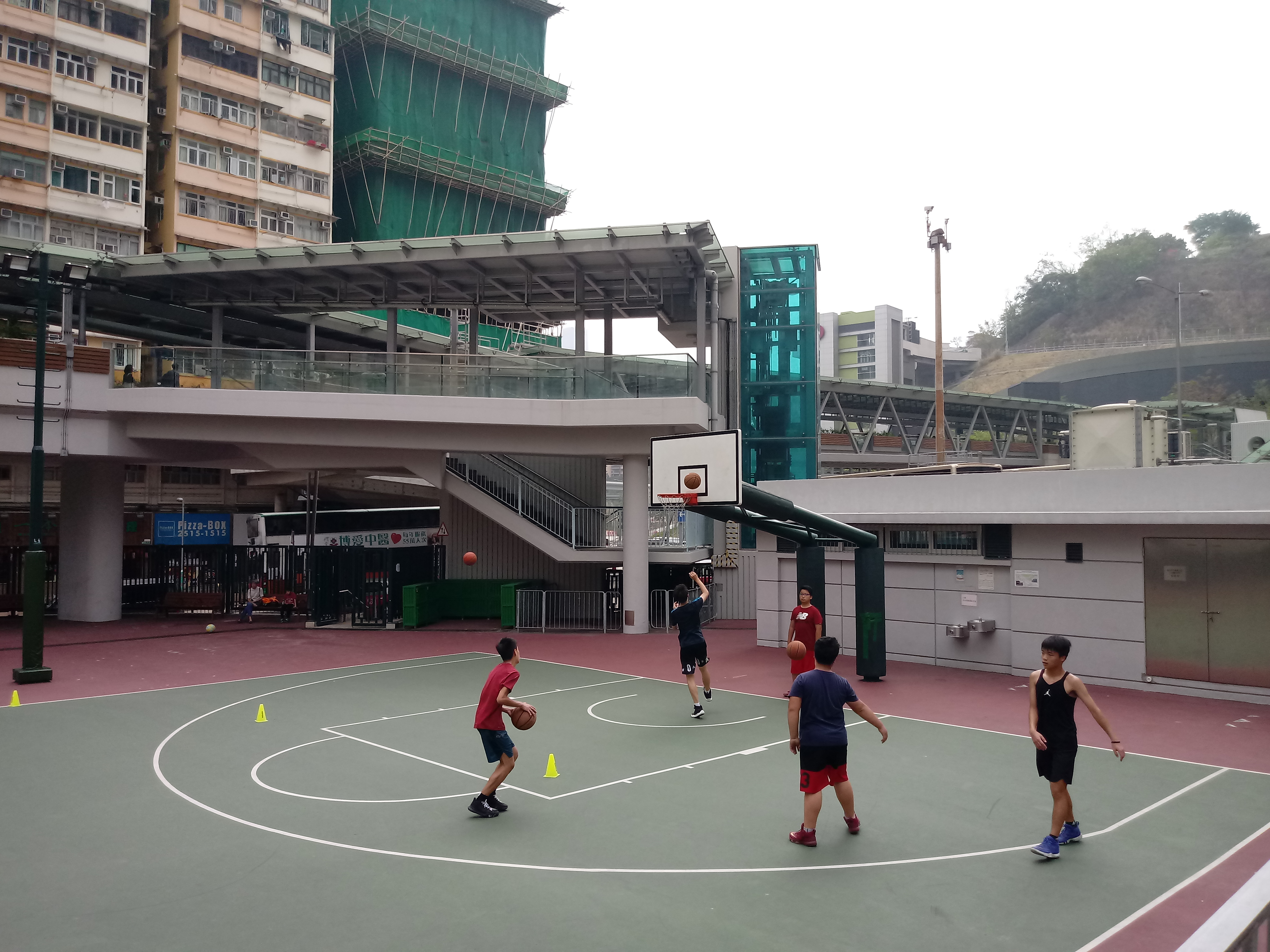 HK Chatham Road North 蕪湖街 臨時遊樂場 Wuhu Street Temporary Playground